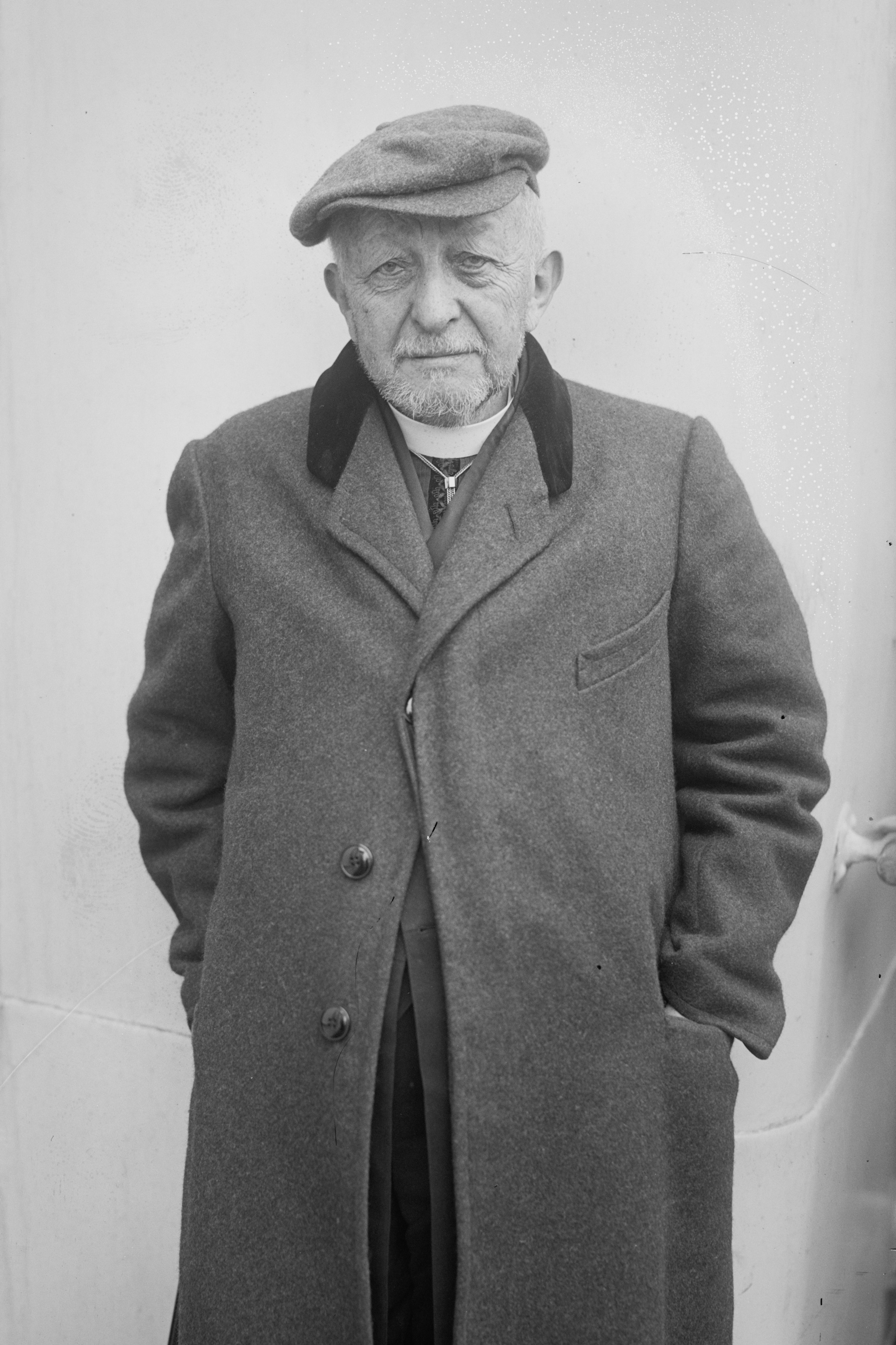 Title: Rev. Edmund Obrecht Abstract/medium: 1 negative : glass ; 5 x 7 in. or smaller.